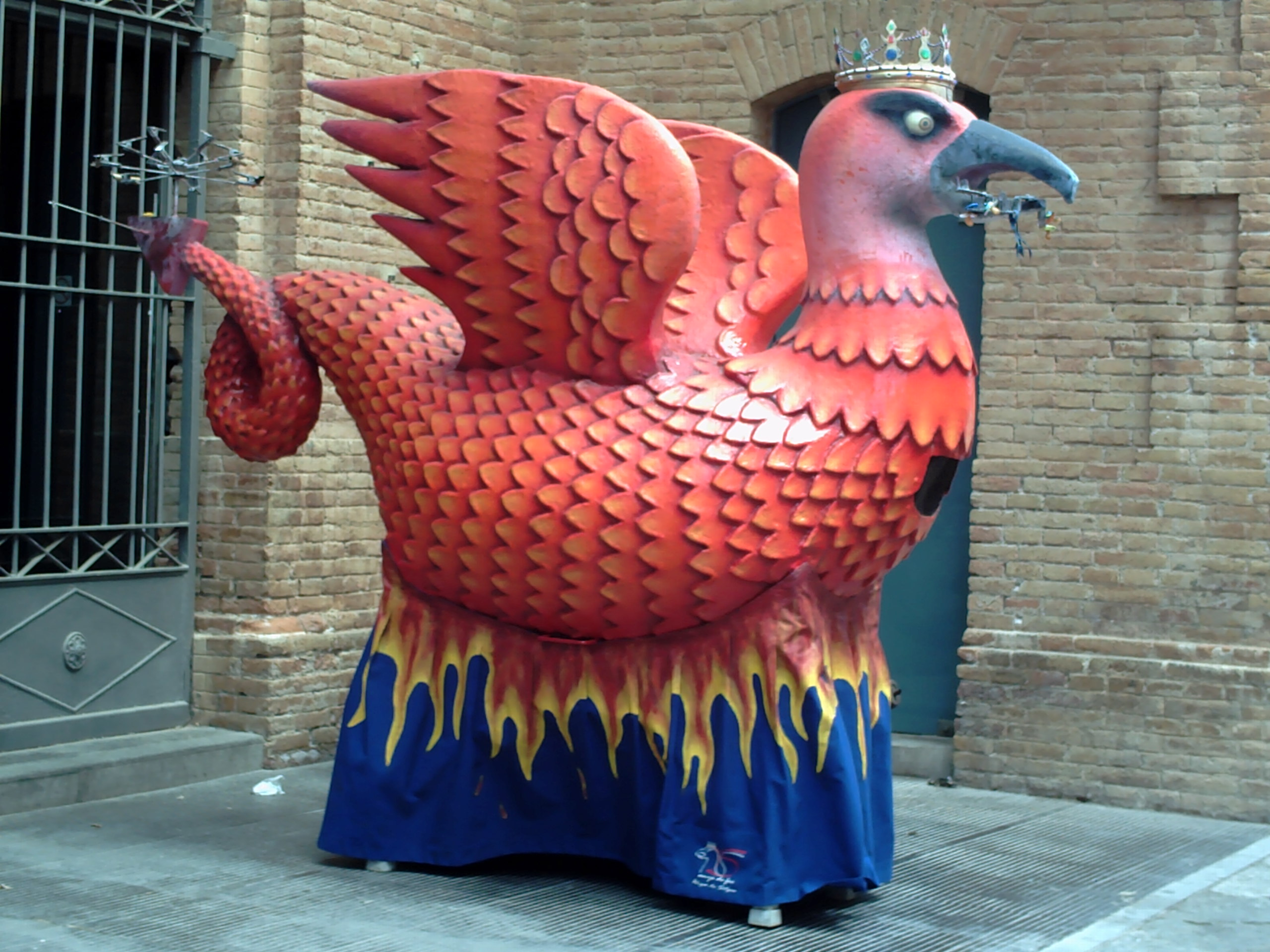 1Figure of eagle in folkloric parade - Sitges